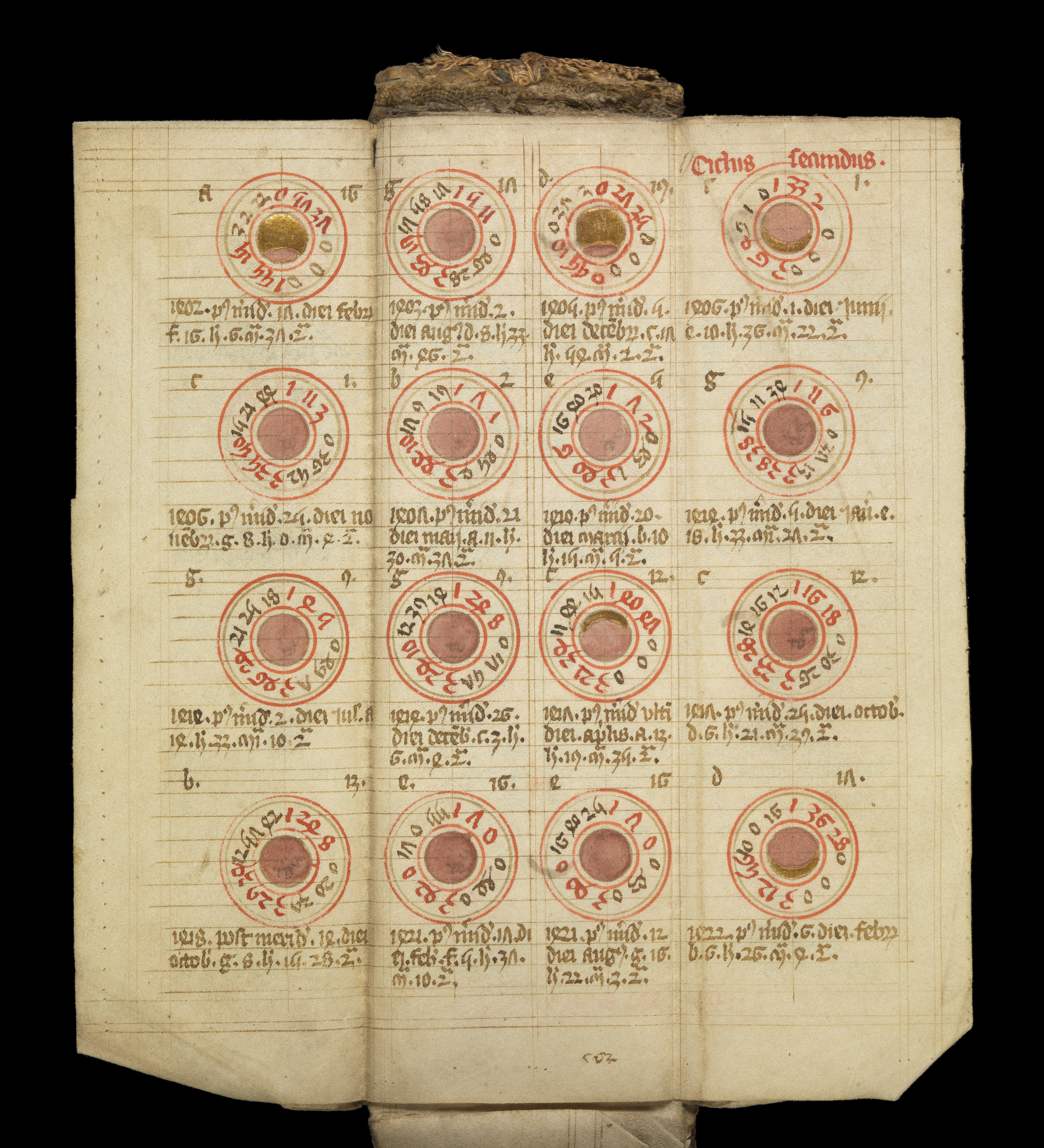 Medieval folding almanac (15th century). Medieval folding almanac in Latin. 5 inches by 1 ½ inches. Contains a calendar and astrological tables and diagrams, including lunar and solar eclipses. There are seven leaves, each folding three times, which contain text diagrams and images in brown, red and blue ink with burnished gold. There is one substantial miniature of the Zodiac man, with lunar and solar tables and computational charts on the same leaf. The binding is embroidered green and pink silk. Almanacs such as these were hung from the belt to provide portable reference charts for physicians, with calendrical, astrological and computational material and were unfolded like a modern day road map. However, such is the finely detailed and ornate nature of this almanac, with its richly illuminated Zodiac man, intricately embroidered pink and green textile binding and gold detailing, it is unlikely to have seen practical use, and was more probably a treasured and valuable artefact in its own right, either held as a status object by a physician, or object of prestige by someone interested in the delicate art of miniaturisation. Archives & Manuscripts Keywords: History, Medieval; Conservation; Medieval; Almanac; Astrology